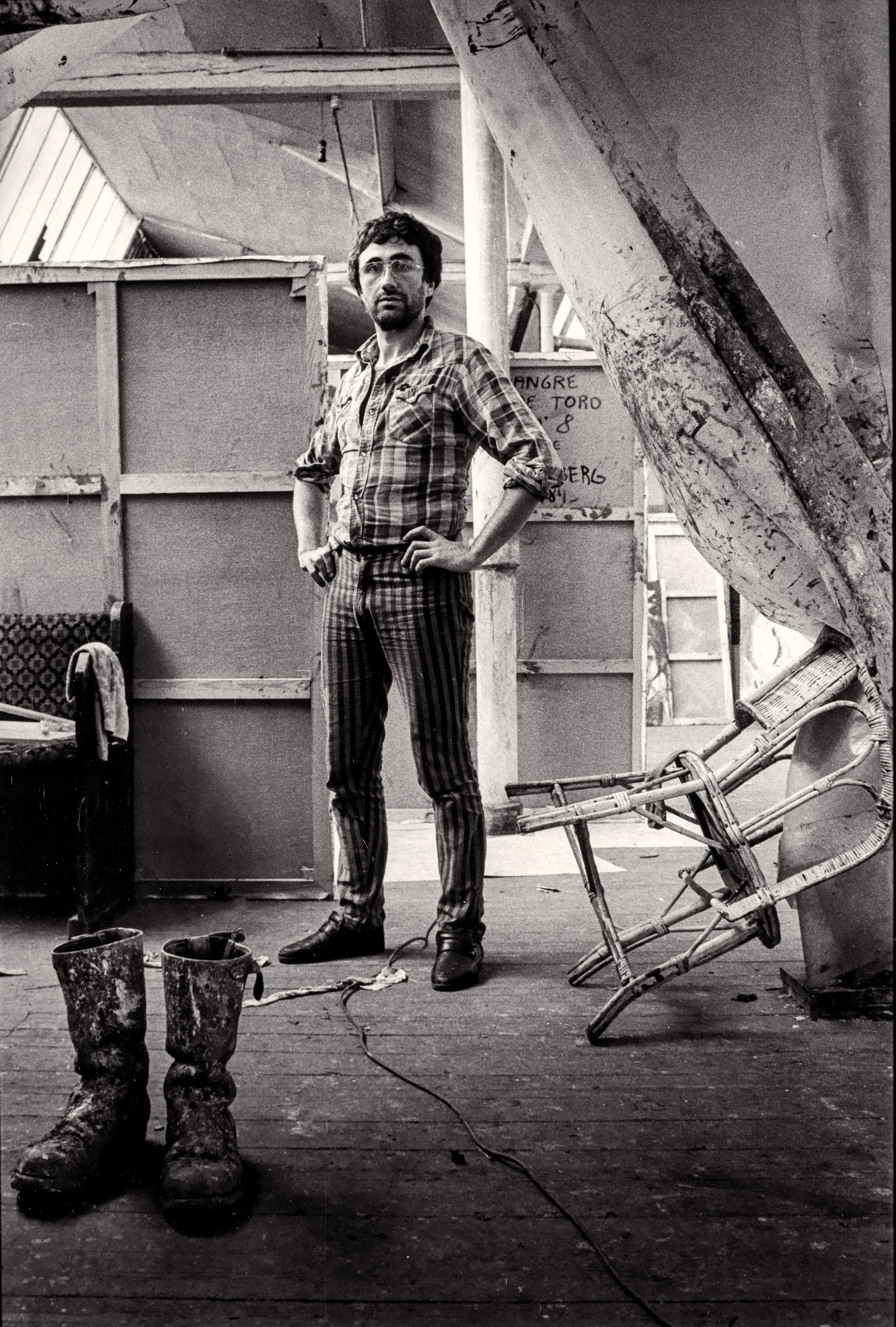 Philippe Vandenberg, Belgium painter in his studio in the 80's in Ghent (Hofstraat).